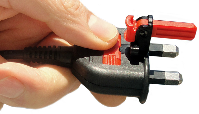 ThinPlug (BS 1363 folding plug) unfolded ready for use.